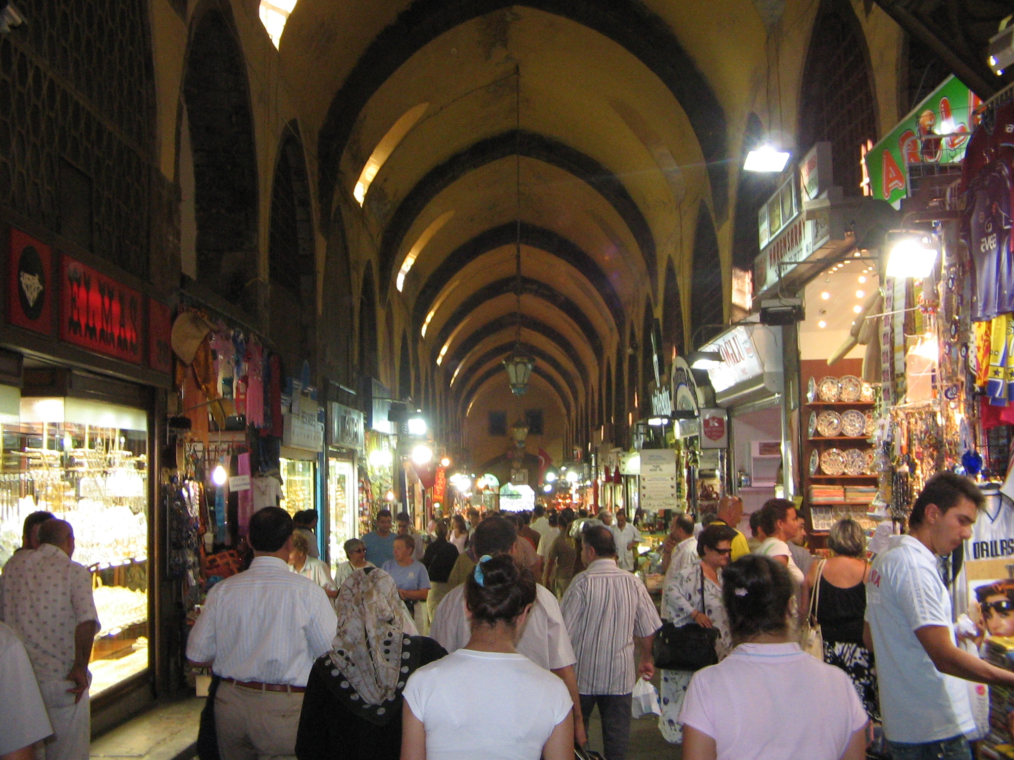 the spice bazaar in istanbul, inside view